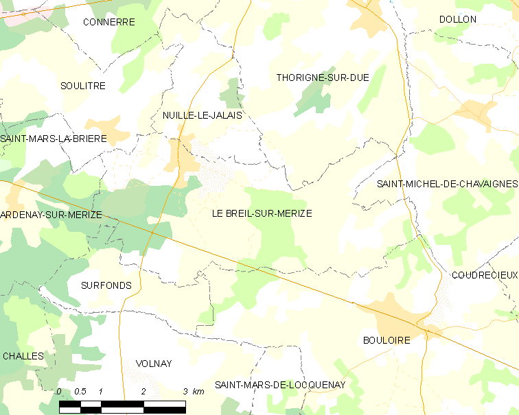 Map of French municipality